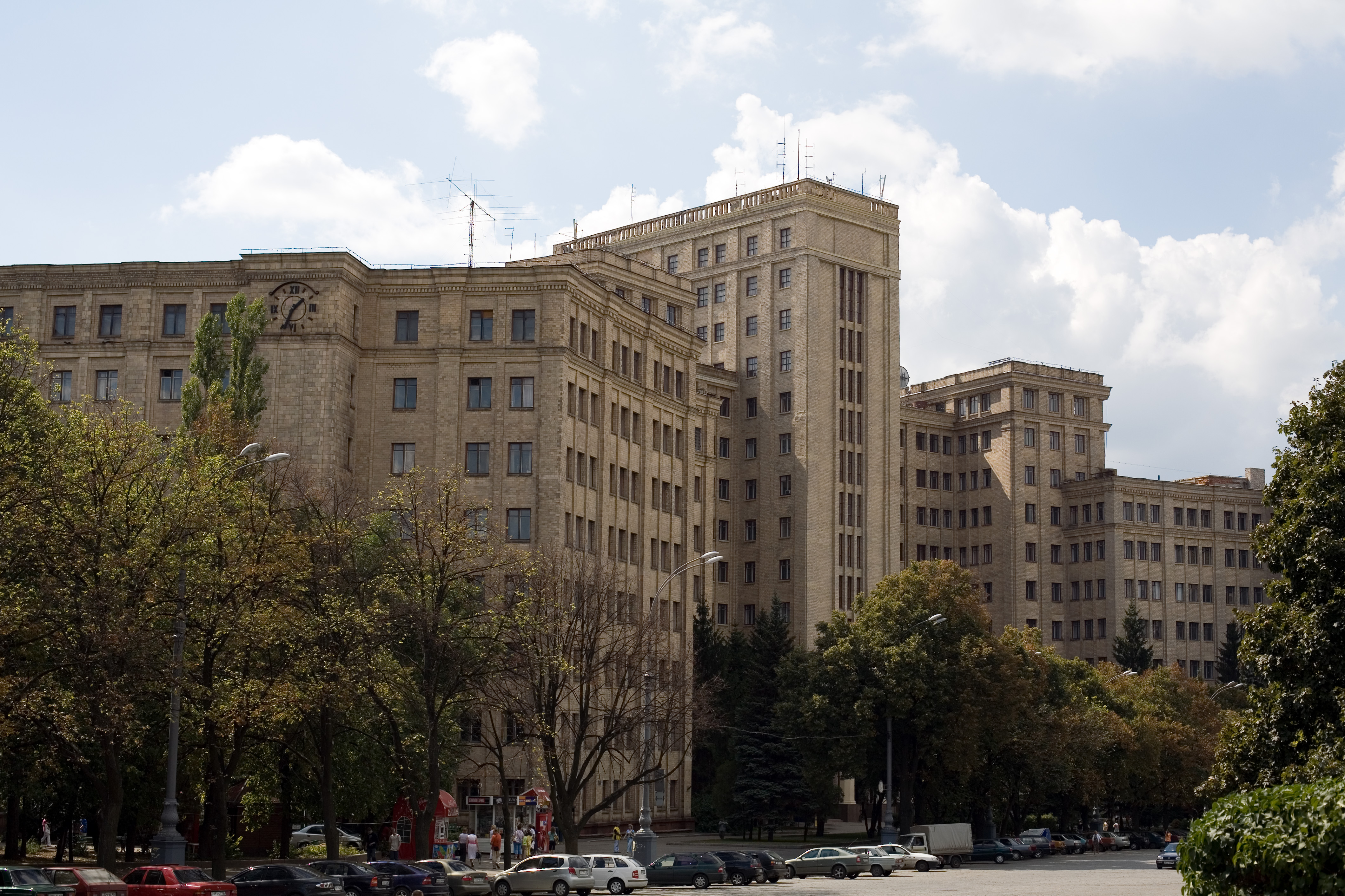 Kharkov State University, new building